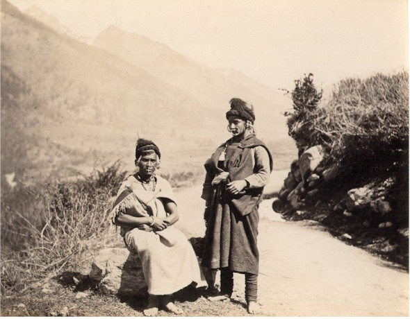 Albumen Photograph of Khas Women from Nepal - 1880's